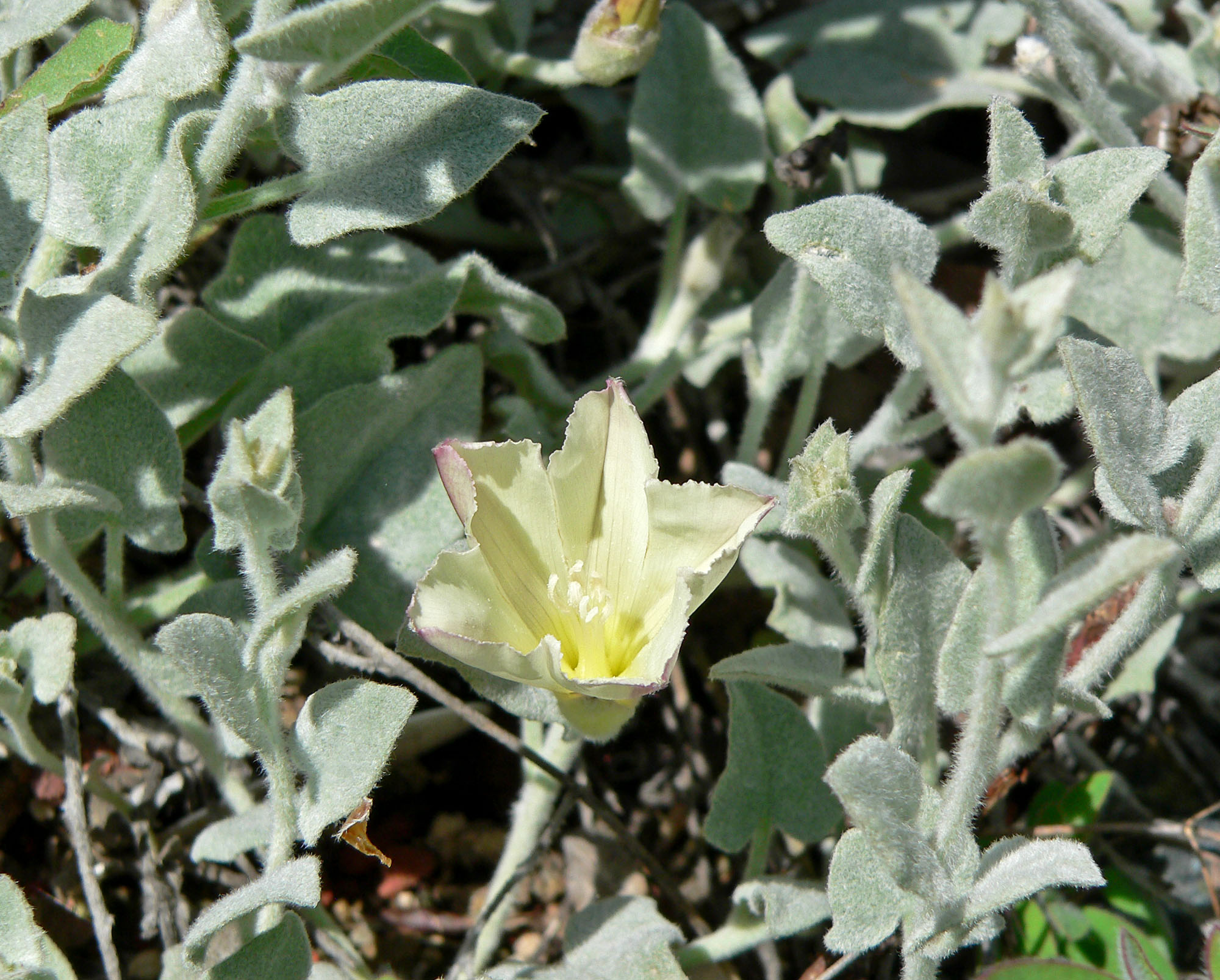 Calystegia malacophylla ssp. pedicillata at the University of California Botanical Garden, Berkeley, California